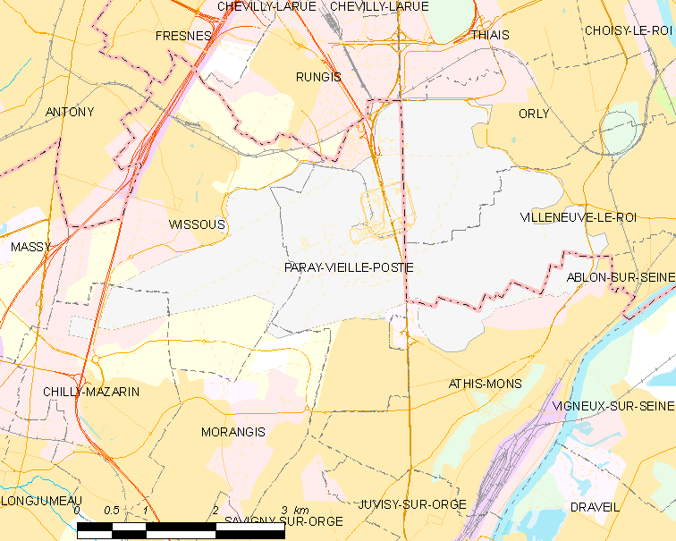 Map of French municipality Paray-Vieille-Poste